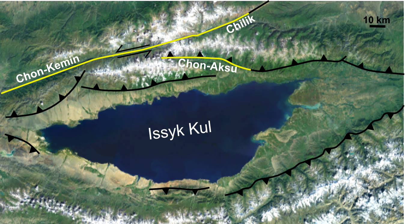 Main geological structures around Issyk Kul lake, taken from Figure 2 of Korjenkov et al. 2006 and Figures 2 & 3 of Delvaux et al. 2001, with zones of surface faulting associated with the 1911 Kemin earthquake shown in yellow on a base of a screen capture from Nasa WorldWind software. Note that the ground ruptures form a zone that is not necessarily at the base of the valleys